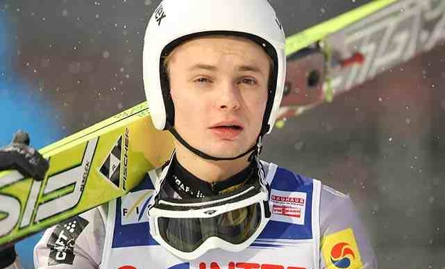 Jan Ziobro during qualification round of FIS Ski Jumping World Cup in Zakopane, 2012